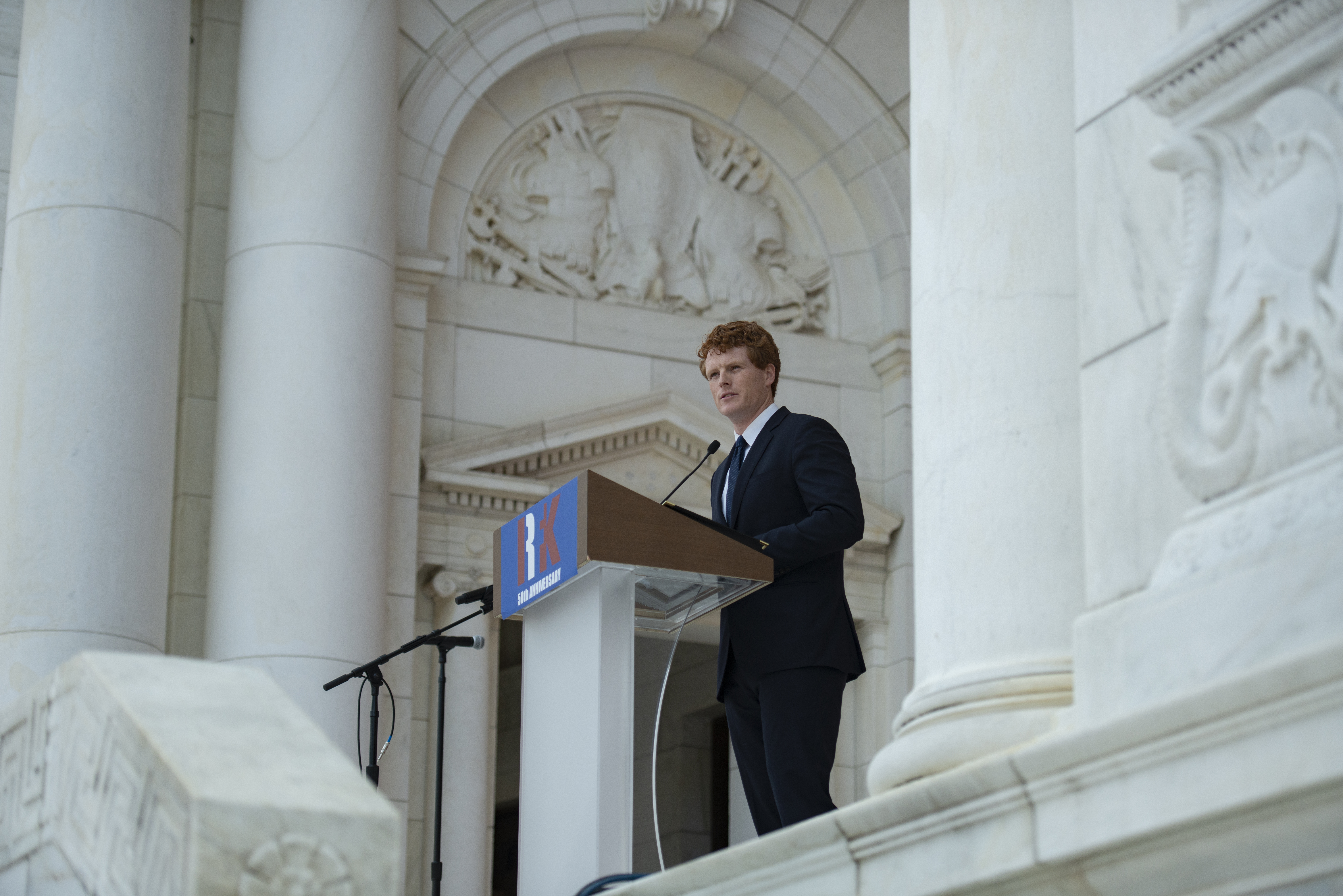 U.S. Rep. Joe Kennedy III speaks during a ceremony celebrating the life of his grandfather, Robert F. Kennedy, on the 50th anniversary of his assassination, in the Memorial Amphitheater at Arlington National Cemetery, Arlington, Virginia, June 6, 2018. The ceremony was open to the public and attended by former President Bill Clinton, Ethel Kennedy, Kathleen Kennedy Townsend, and U.S. Rep. John Lewis, among others. (U.S. Army photo by Elizabeth Fraser / Arlington National Cemetery / released)